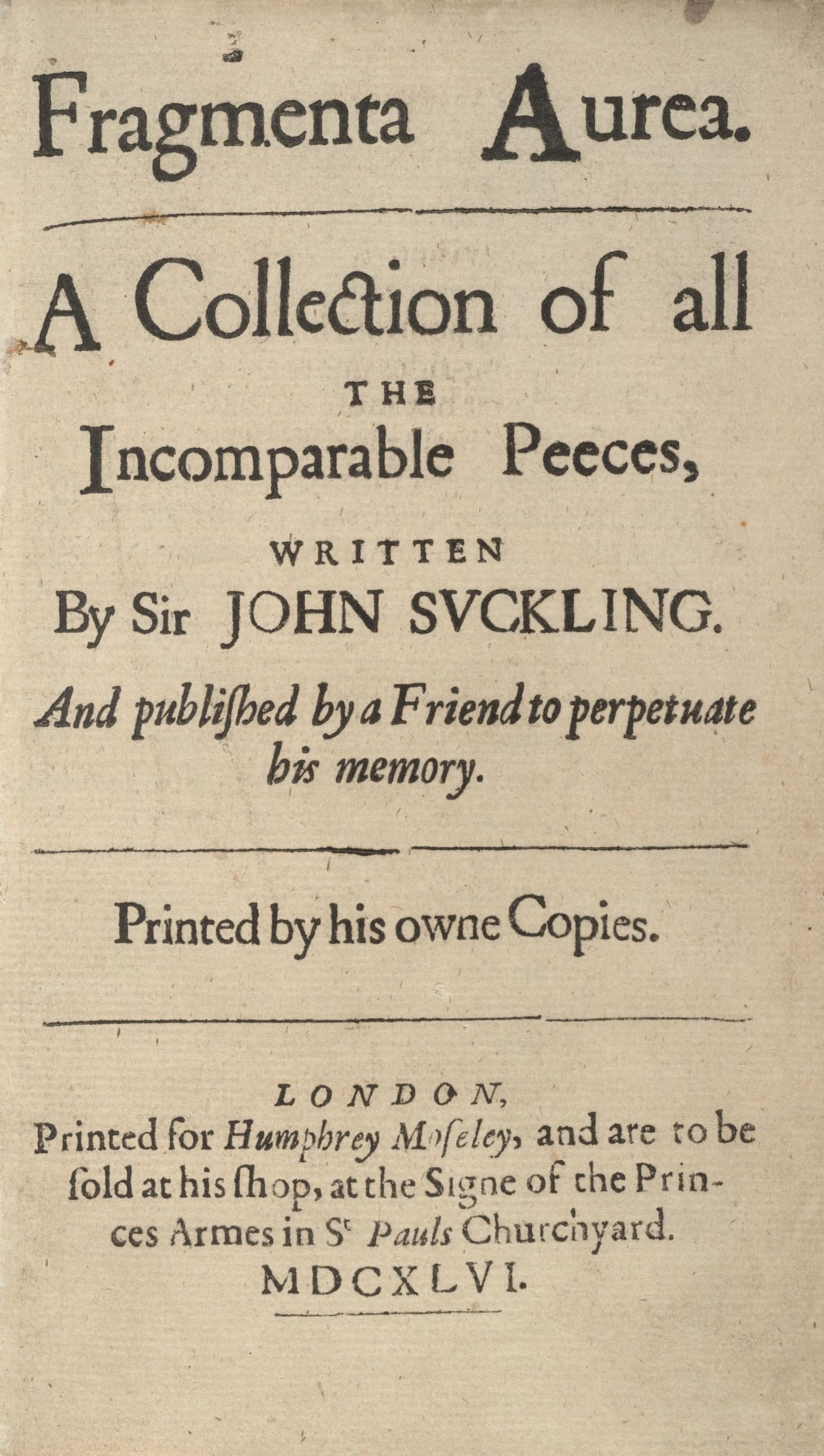 Title page to Fragmenta Aurea, London, 1646, by Sir John Suckling (1609-c.1641). EC.Su185.646f (A), Houghton Library, Harvard University